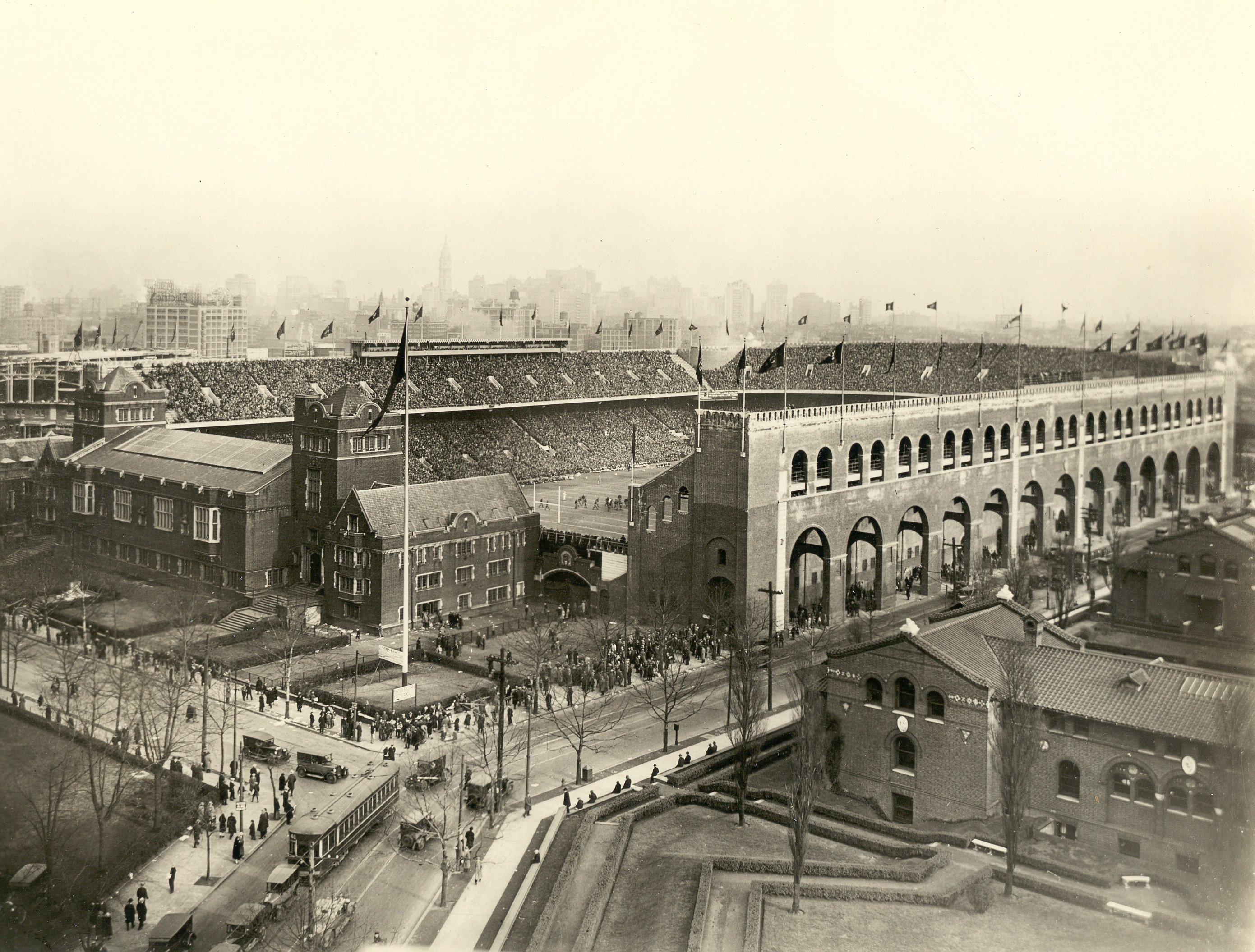 Franklin Field upon completion of the upper deck in 1925.